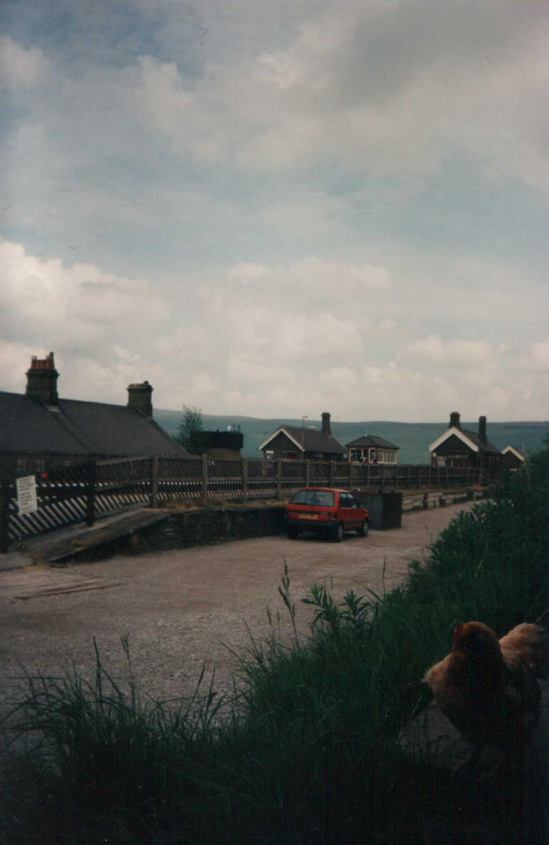 Garsdale railway station (and hen!) - 3rd June 1997